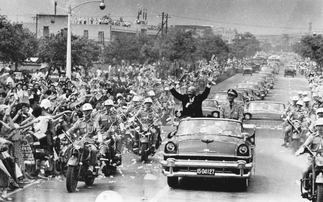 With President Chiang Kai-shek of the Republic of China, the U.S. President Dwight D. Eisenhower waved hands to Taiwanese people during his visit to Taipei, Taiwan in June 1960. The two Presidents issued a Joint Communique reaffirming solidarity, stating that, according to the 1954 Sino-American Mutual Defense Treaty, Kinmen and Matsu islands were closely related to the defense of Taiwan, and condemning the Communist China's artillery bombardment against Kinmen. Chiang was the Supreme Commander of Allied forces in the China war zone while Eisenhower was the Supreme Allied Commander Europe. Chiang met President Franklin D. Roosevelt and British Prime Minister Winston Churchill at the Cairo Conference in 1943 while Eisenhower also attended the meeting.